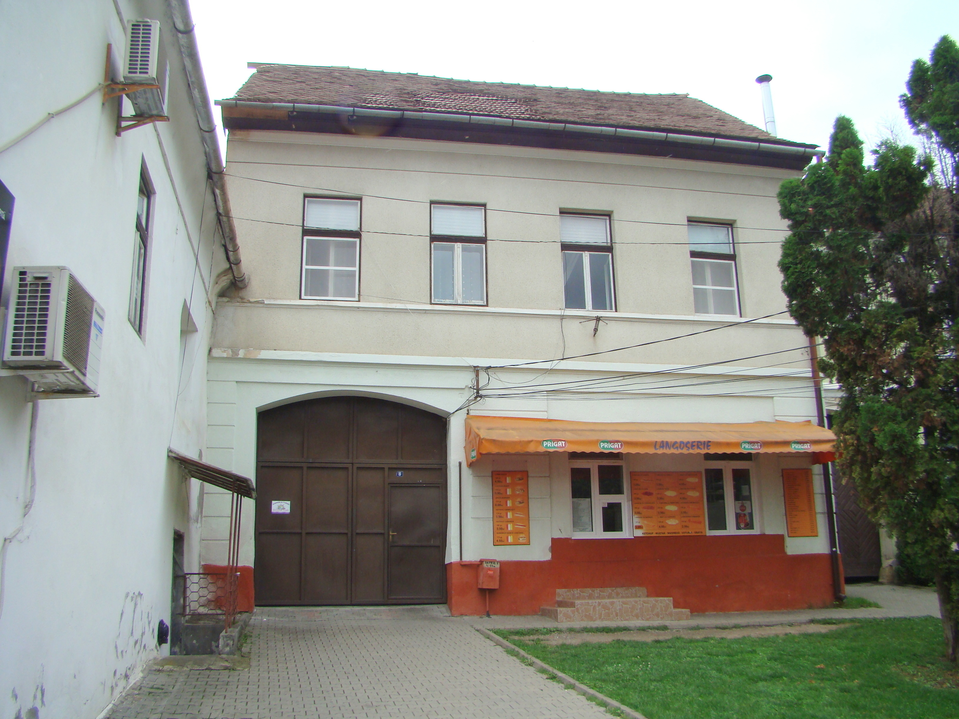 House, historic monument, in Reghin, Petru Maior square, nr.8